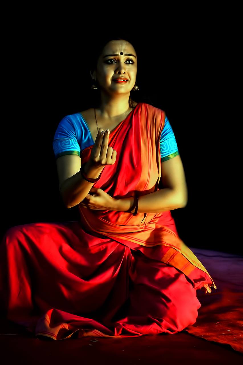 Rajashree Warrier is a Bharata Natyam dancer, educator and media person. She is also a writer in Malayalam and a vocalist